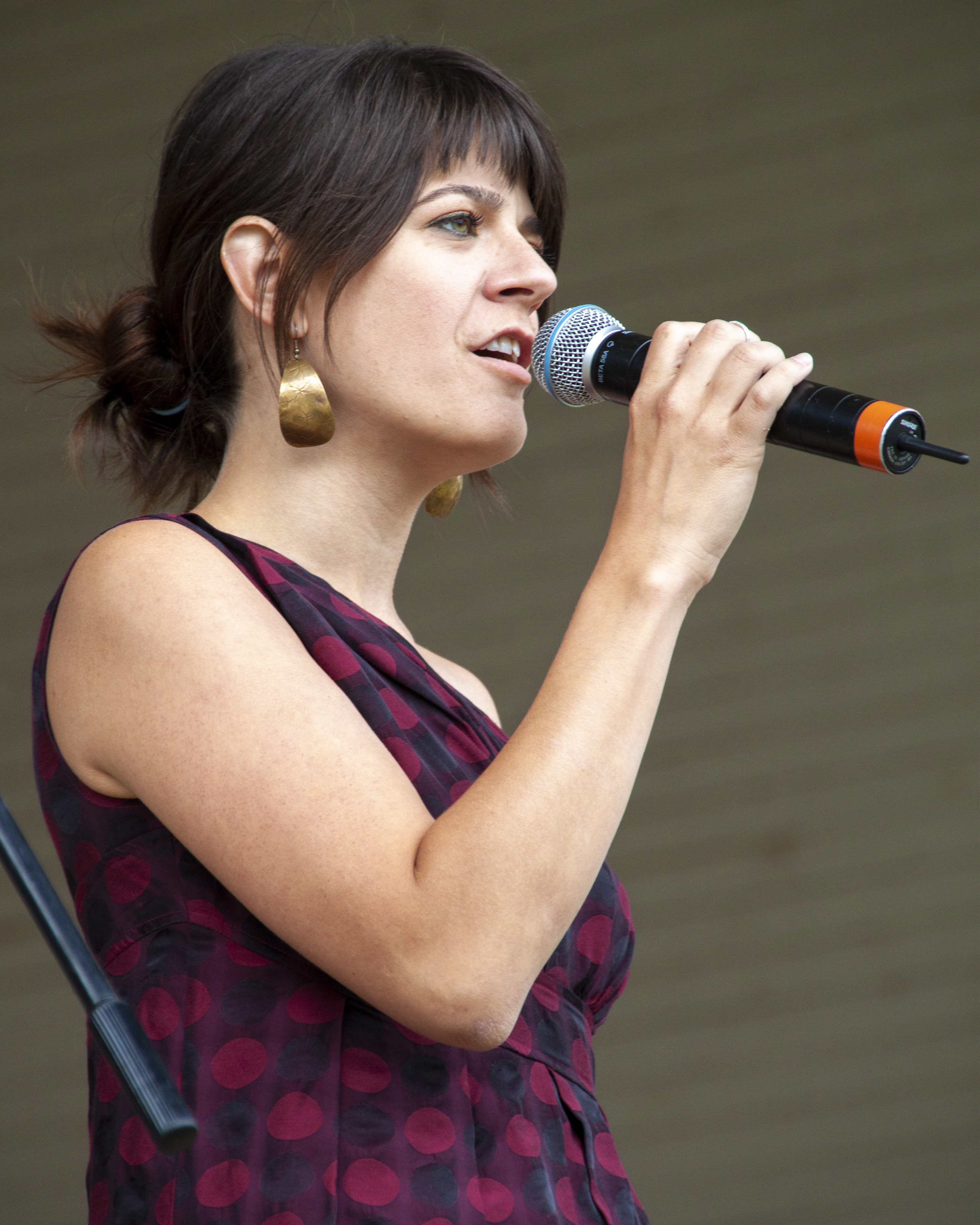 Ariane Mahrÿke Lemire is singing on the main stage during Canada Day celebrations at Prince's Island Park in Calgary, Alberta, Canada on Canada Day, July 1, 2010.